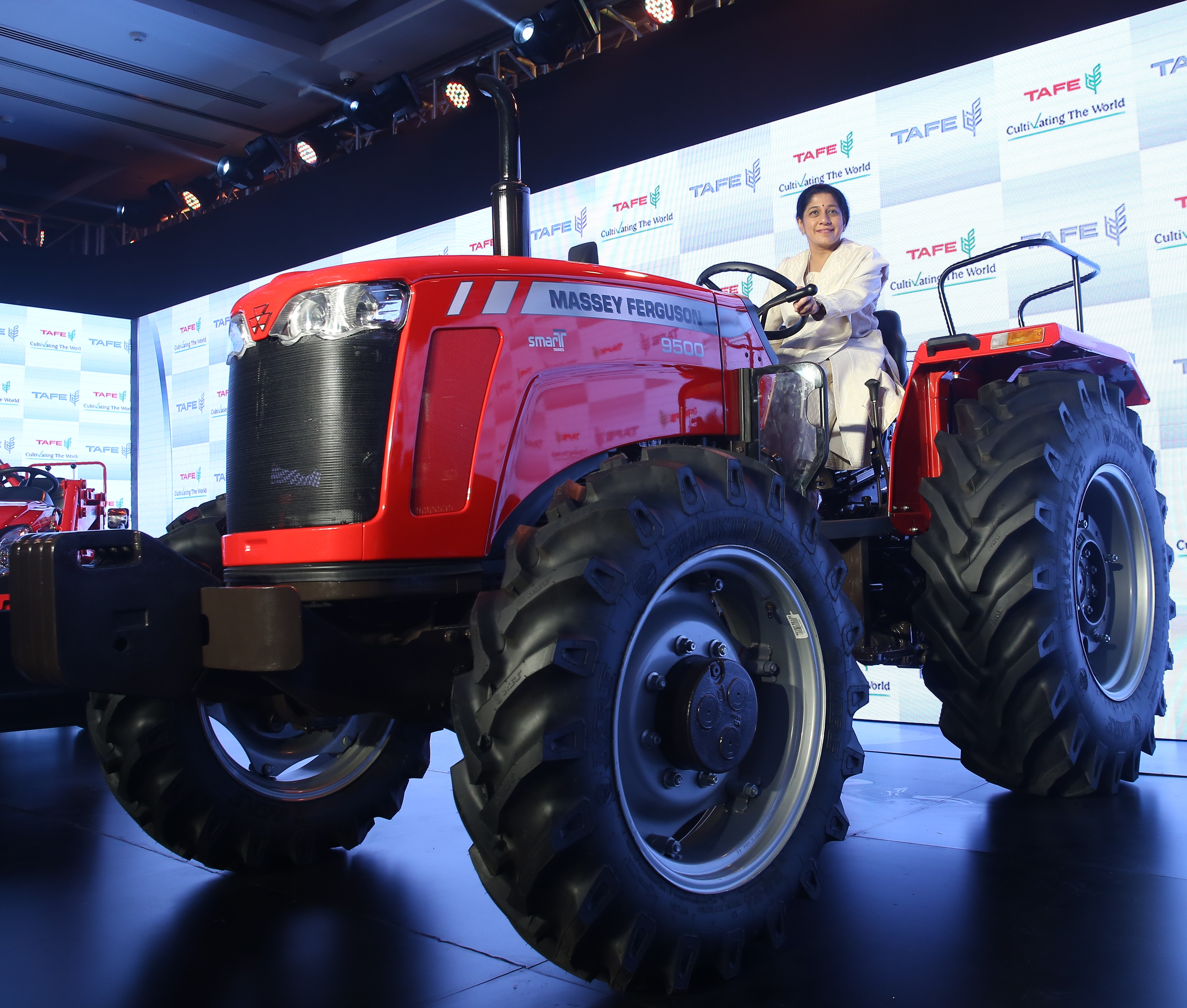 TAFE Chairman & CEO, Ms. Mallika Srinivasan on a MF 9500 SMART tractor at the launch of the MF 'SMART' tractor series and MF 6028 Premium Utility Compact tractor.